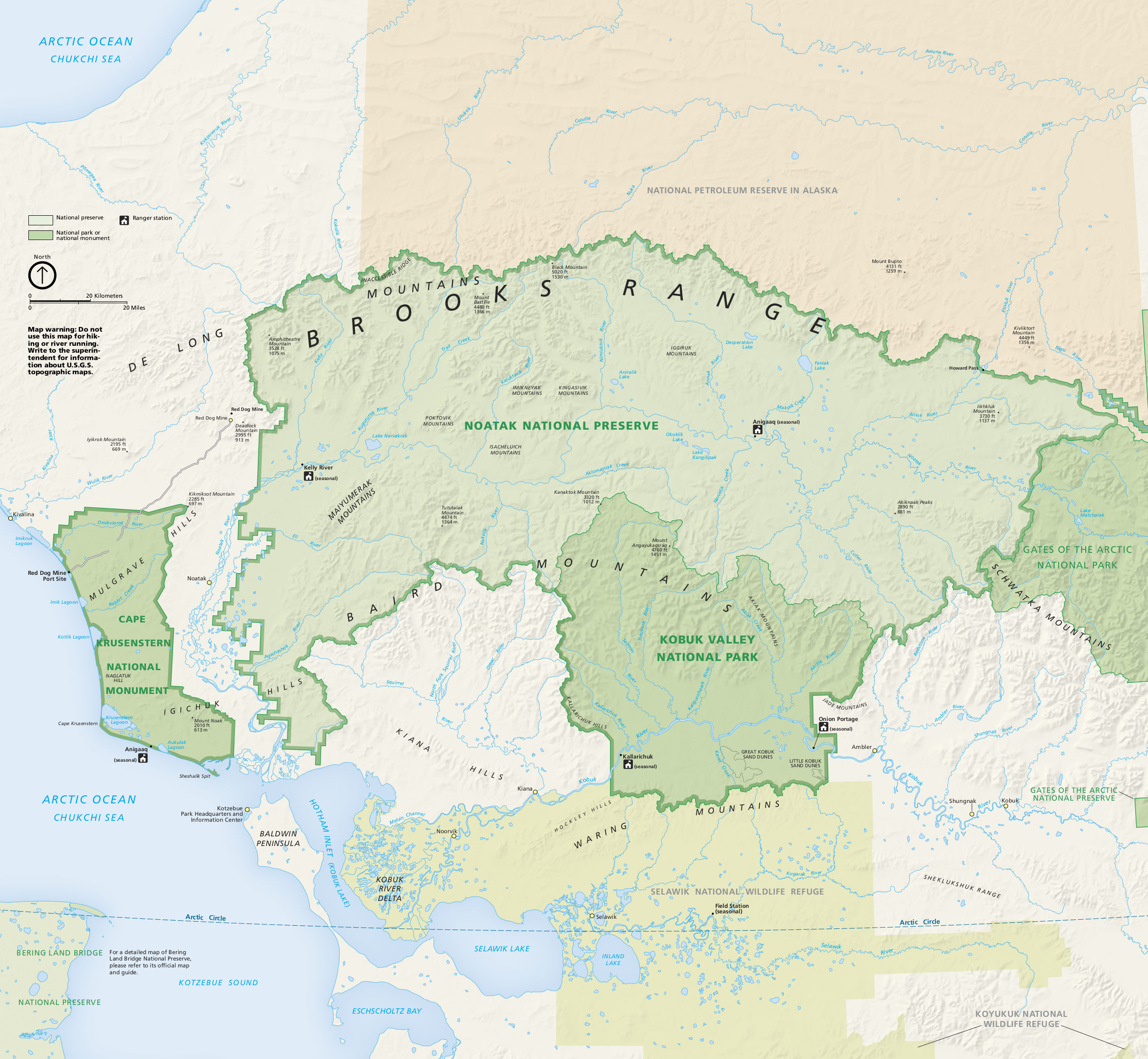 Kobuk Valley map from the official national park brochure, showing the park’s layout and all of Noatak National Preserve.